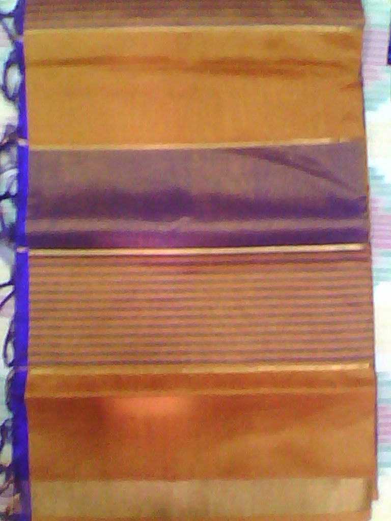 pochampally fancy silk sarees,with blouse